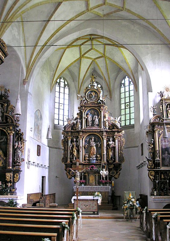 Oberwittelsbach, Subsidiary Church of the Blessed Virgin Mary. Interior view facing north-east.